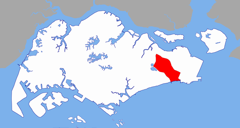 Created by Vsion